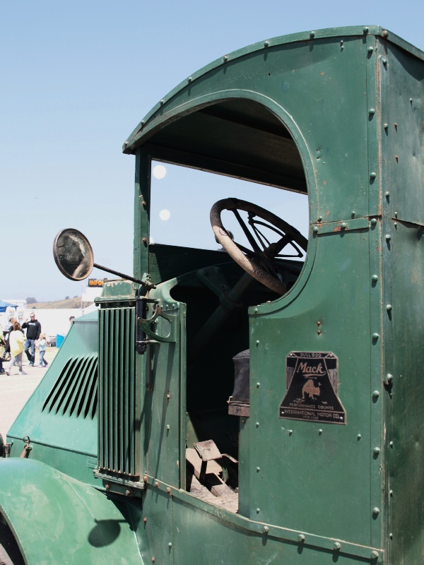 Model AC, International Motor Co. (Mack Trucks, Inc.) Pacific Coast Dream Machines 2009, Half Moon Bay, CA